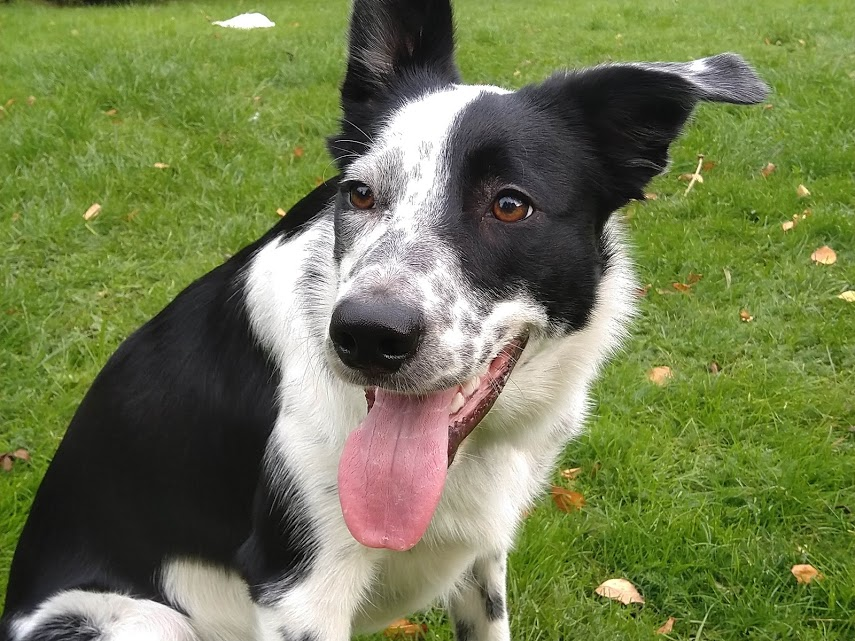 A nine month old short haired Border Collie